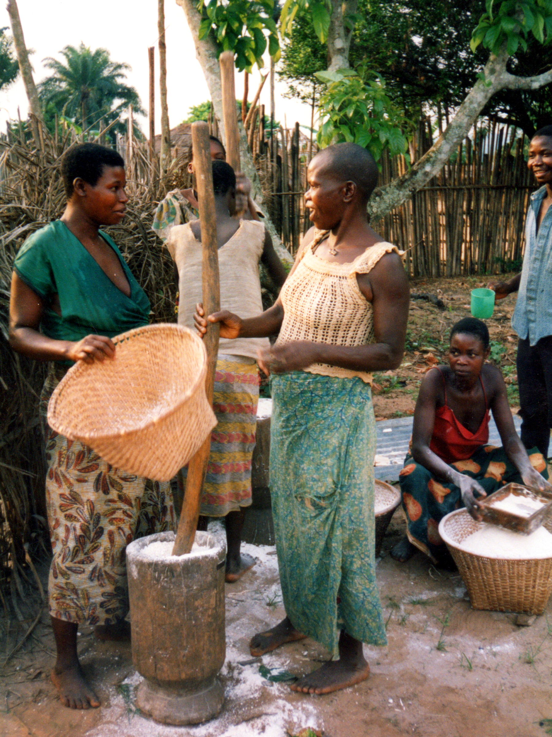 Cassava flour being pounded in a mortar, after which it is sifted before being put in hot water to make cassava bread or "fufu" or "luku" in Kikongo.